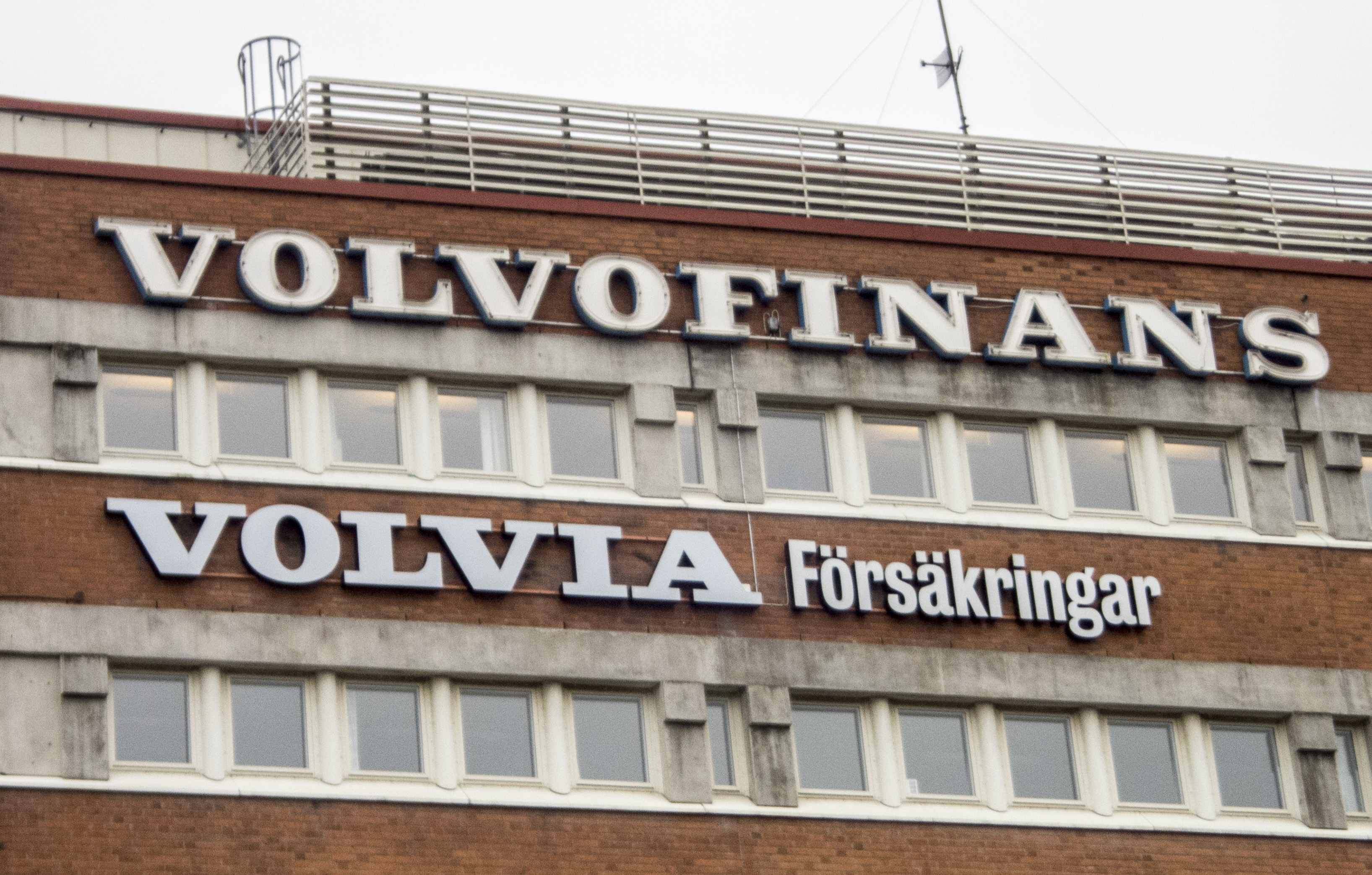 Volvofinans & Volvia, Bohusgatan 15, Göteborg